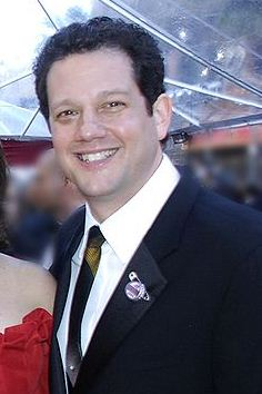 Michael Giacchino, on the Oscar red carpet with his sister.